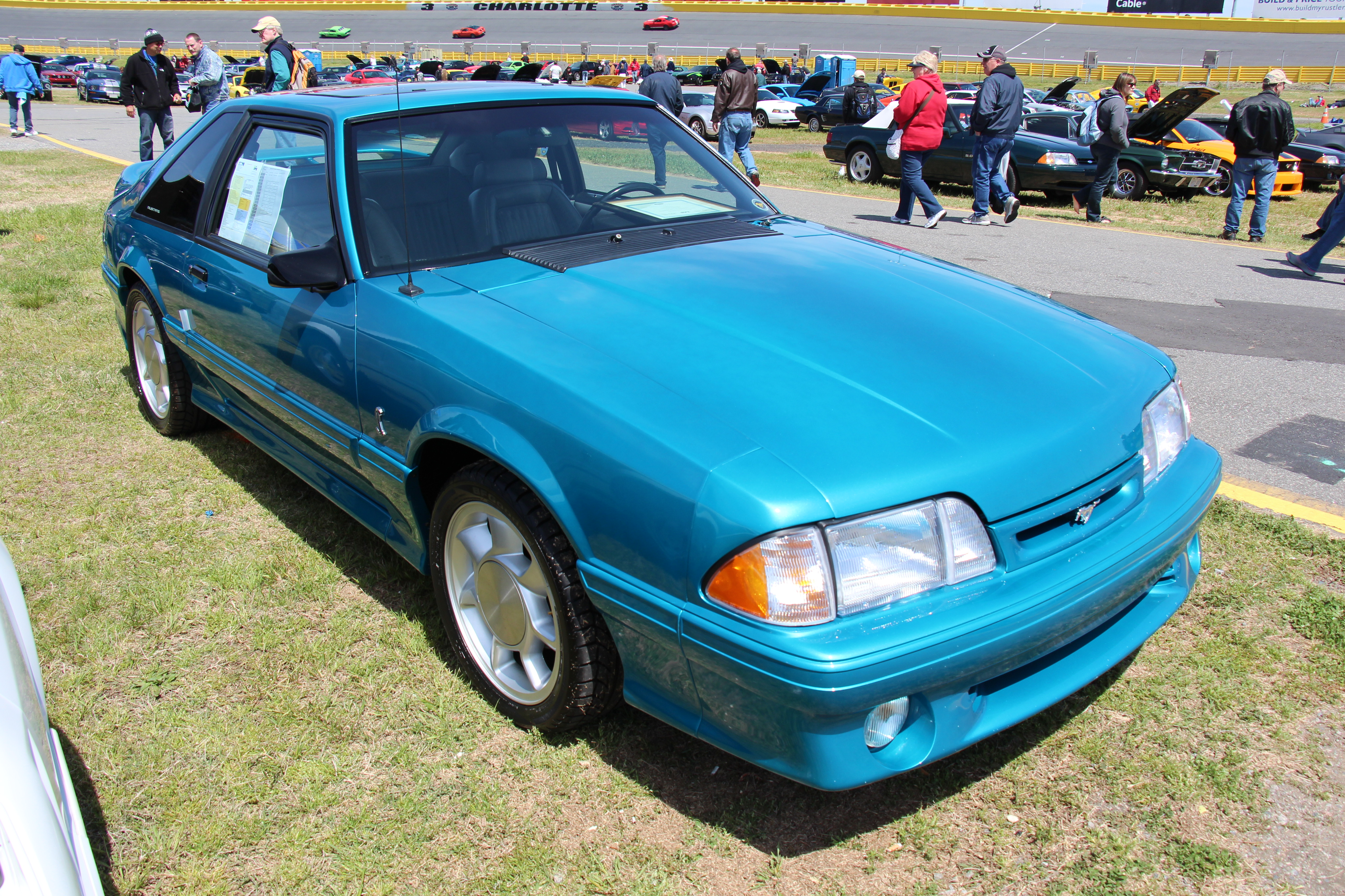 Teal The 3rd generation Fox body Mustang was made from 1979-1993, a minor update to front and rear in 1983, and again in 1985, then a more substantial update in 1987 saw the grille and quad headlights replaced by modern single headlights and the no grille aero look. Only models available were the LX and GT and just the 2.3 litre 4 and 5.0 V8, still coupe, hatchback and convertible. Under the newly established Ford SVT division, 4993 SVT Cobras were available for the 1st time in 1993, with the 235hp 302 V8, an even more race orientated Cobra R was available too, only 107 were made. Photographed at the 50th Anniversary of the Mustang celebrations at the Charlotte Motor Speedway, April 2014